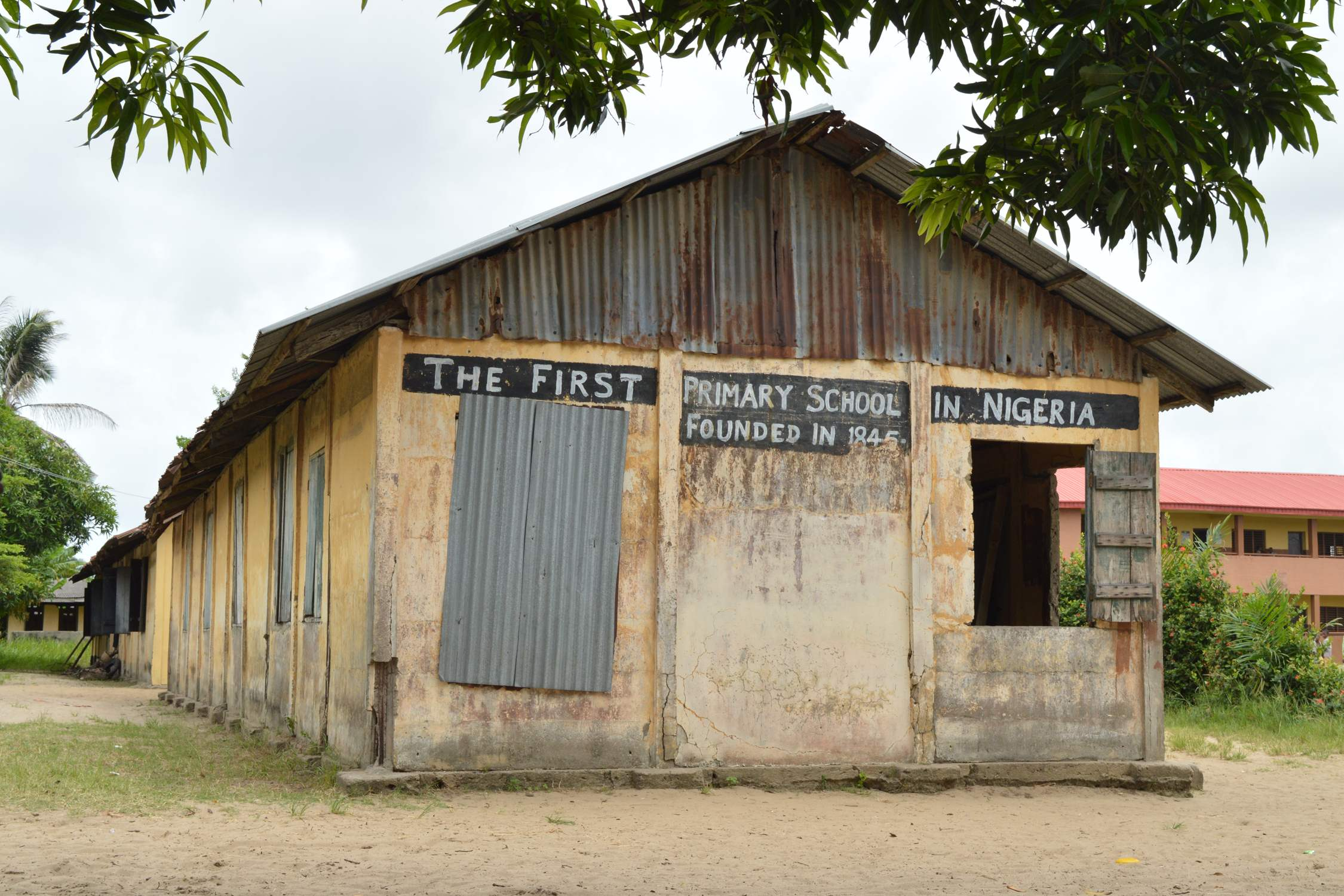 first primary school building in Nigeria in Badagry, Nigeria